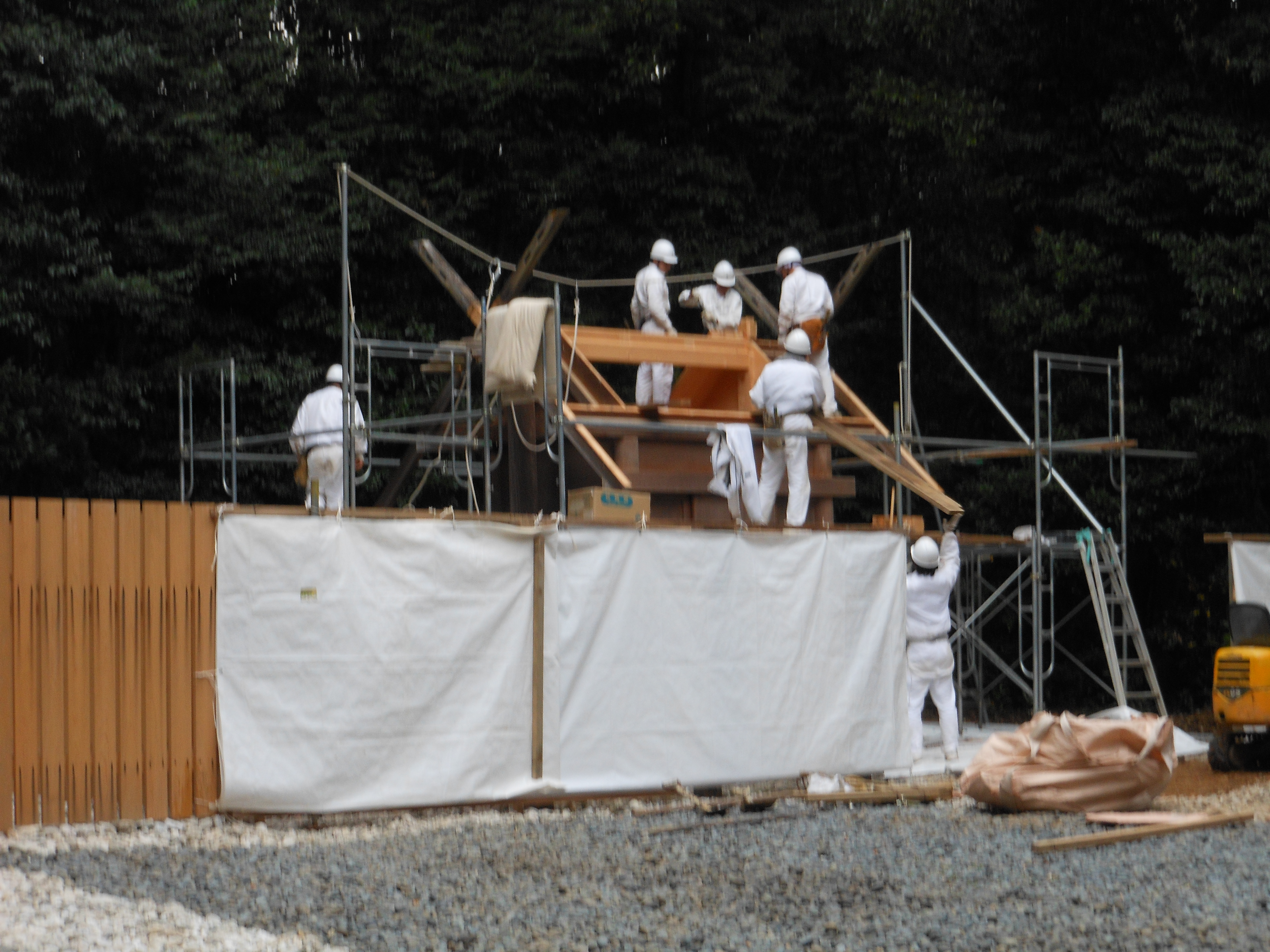 This is the Saminaga shrine in dismantling.